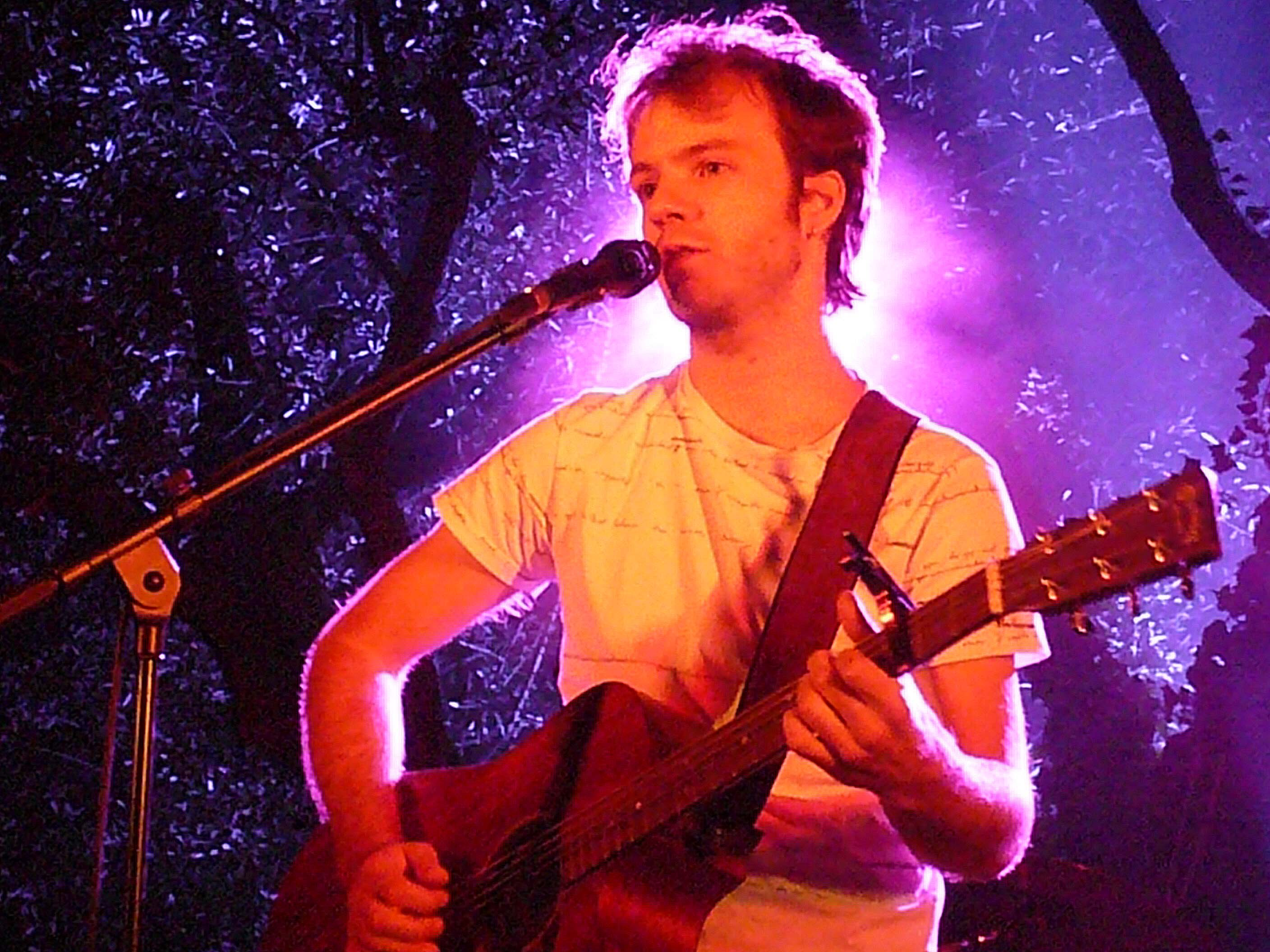 Benoit Doremus